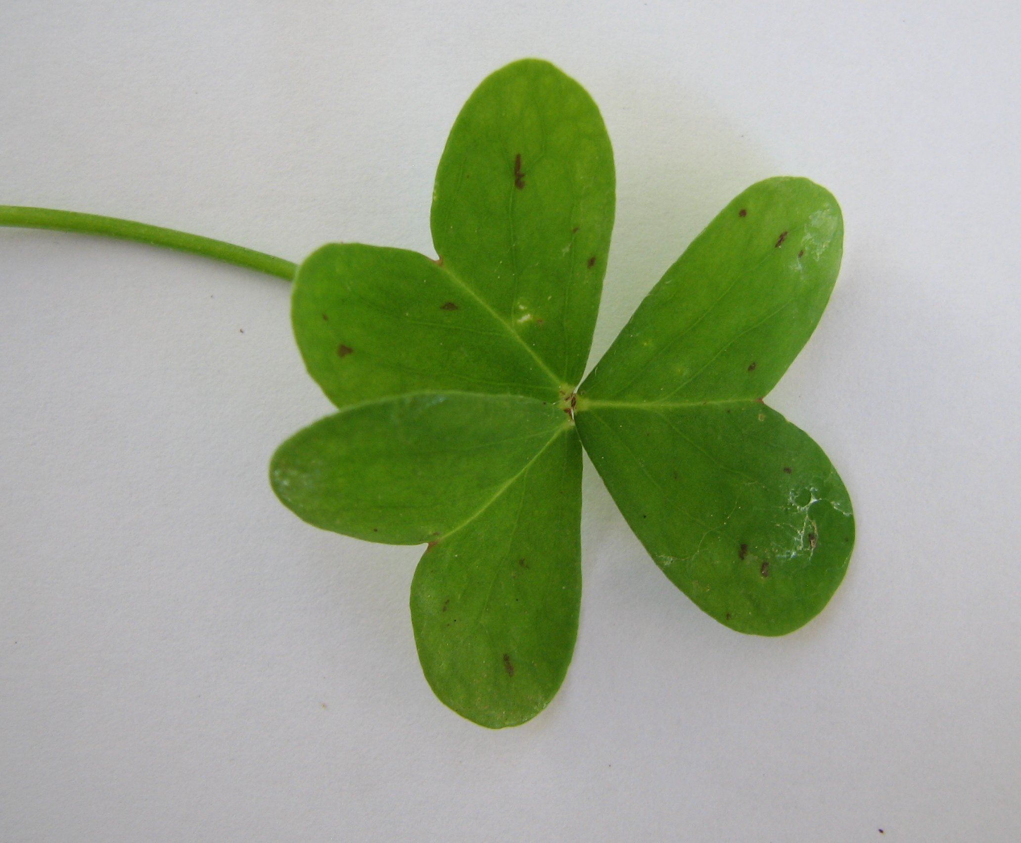 Leaf of Oxalis pes-caprae in detail, in Torres Novas, Portugal.